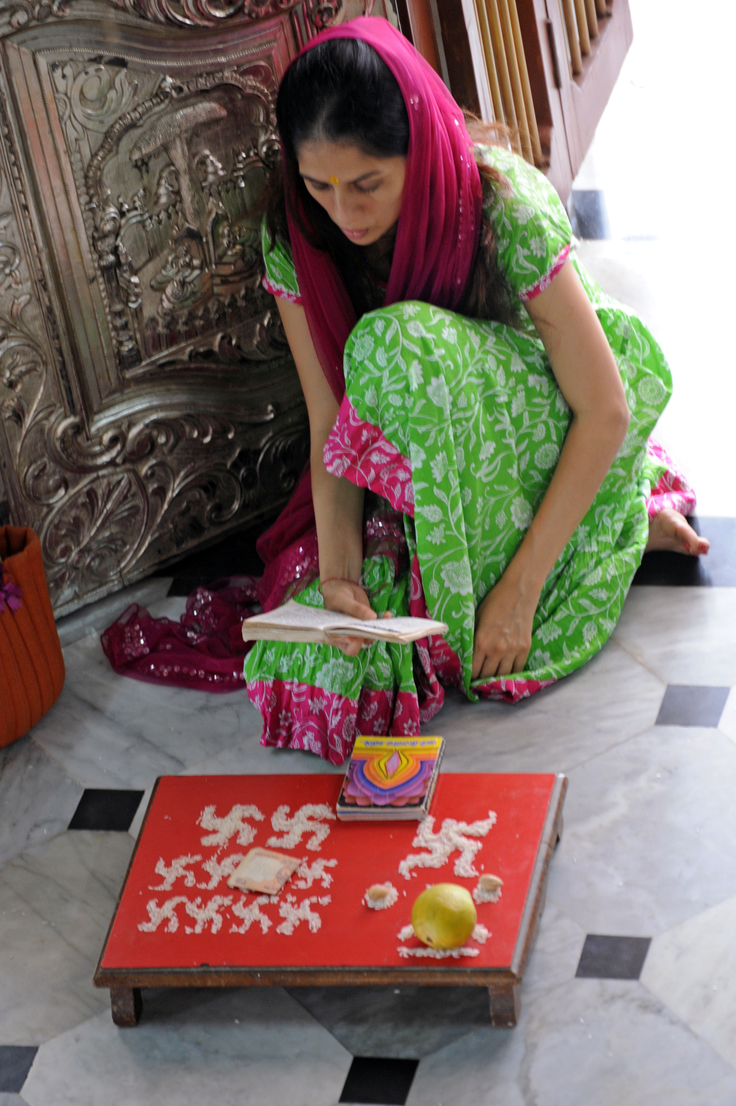 A Jain woman with offerings of rice, almond, fruit and money. She is reading a Jain text. A swastika mark is made from rice, and is considered auspicious and spiritual.